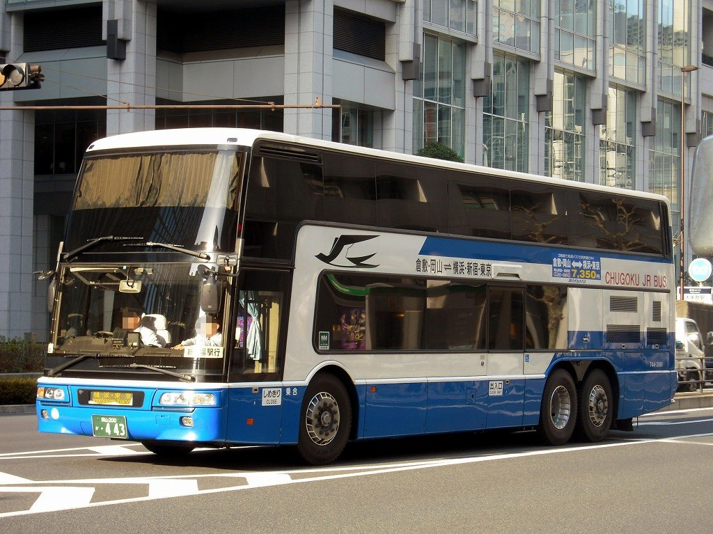 Chugoku JR bus Mitsubishi Fuso Aero King(MU612TX) Highwaybus "Keihin-Kibi-Dream"(Tokyo,Yokohama-Okayama,Kurashiki)